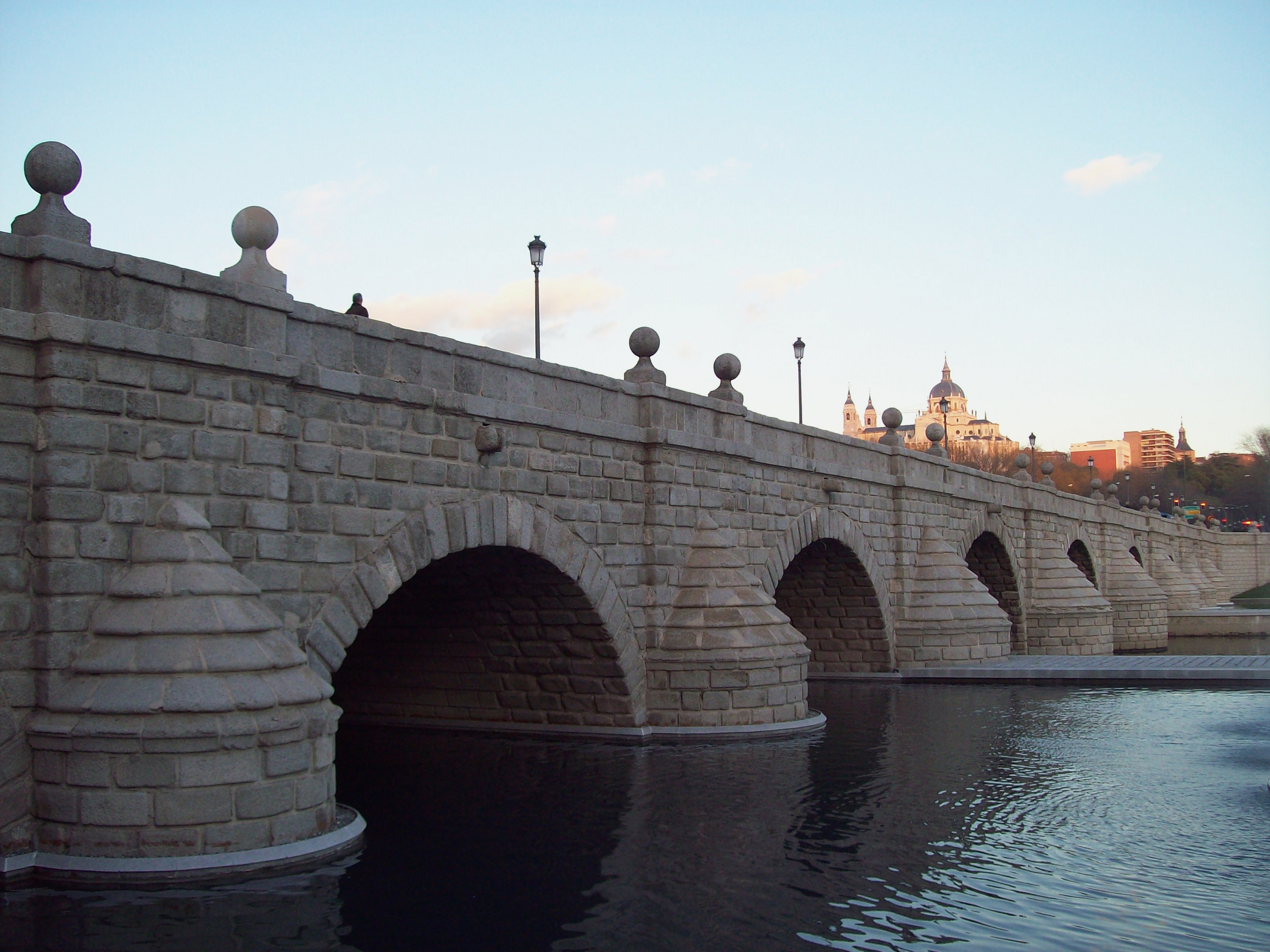 Southern side of Segovia Bridge in Madrid (Spain).